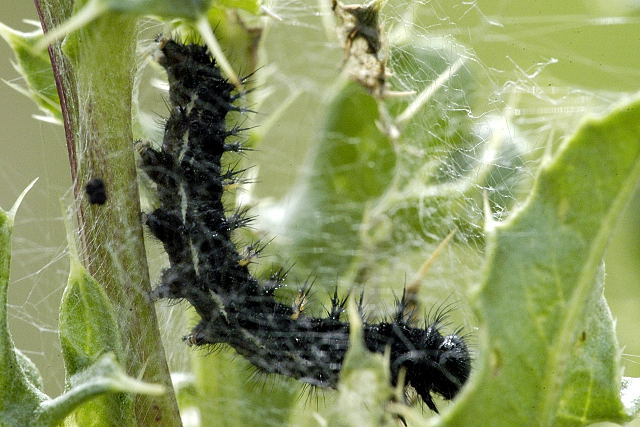 Picture taken in Commanster, Belgian High Ardennes . Species: Vanessa cardui caterpillar